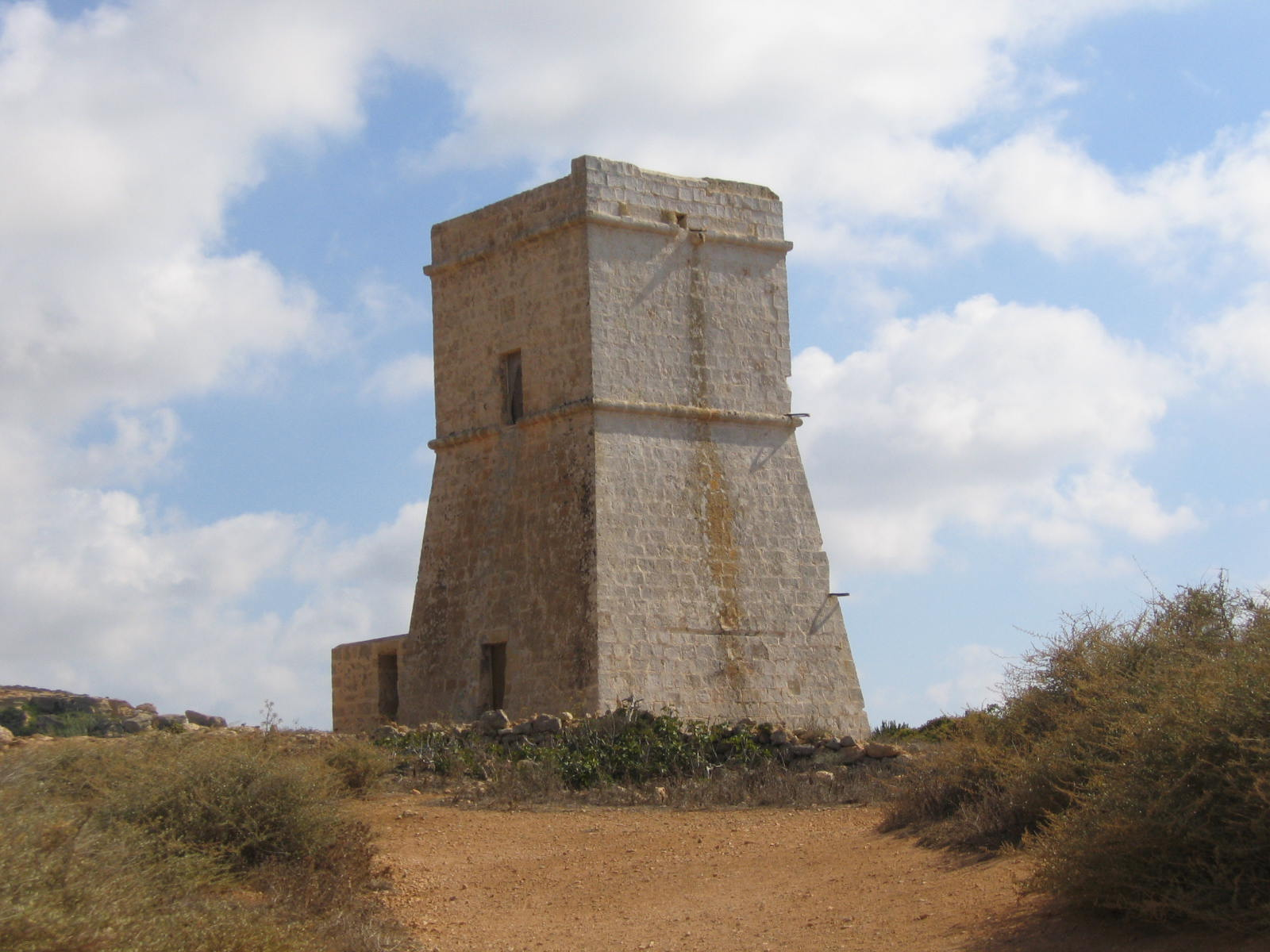 Tower above Ghajn Tuffieha Bay, Malta